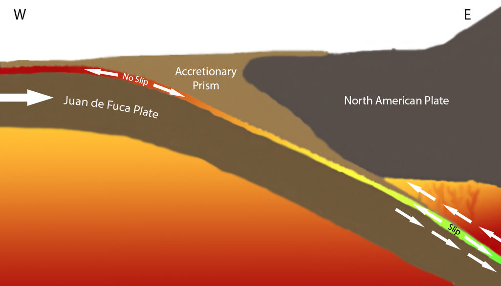 This is the Juan de Fuca Plate subducting under the North American Plate, showing the movement of the plate where the slow slip event is taking place.